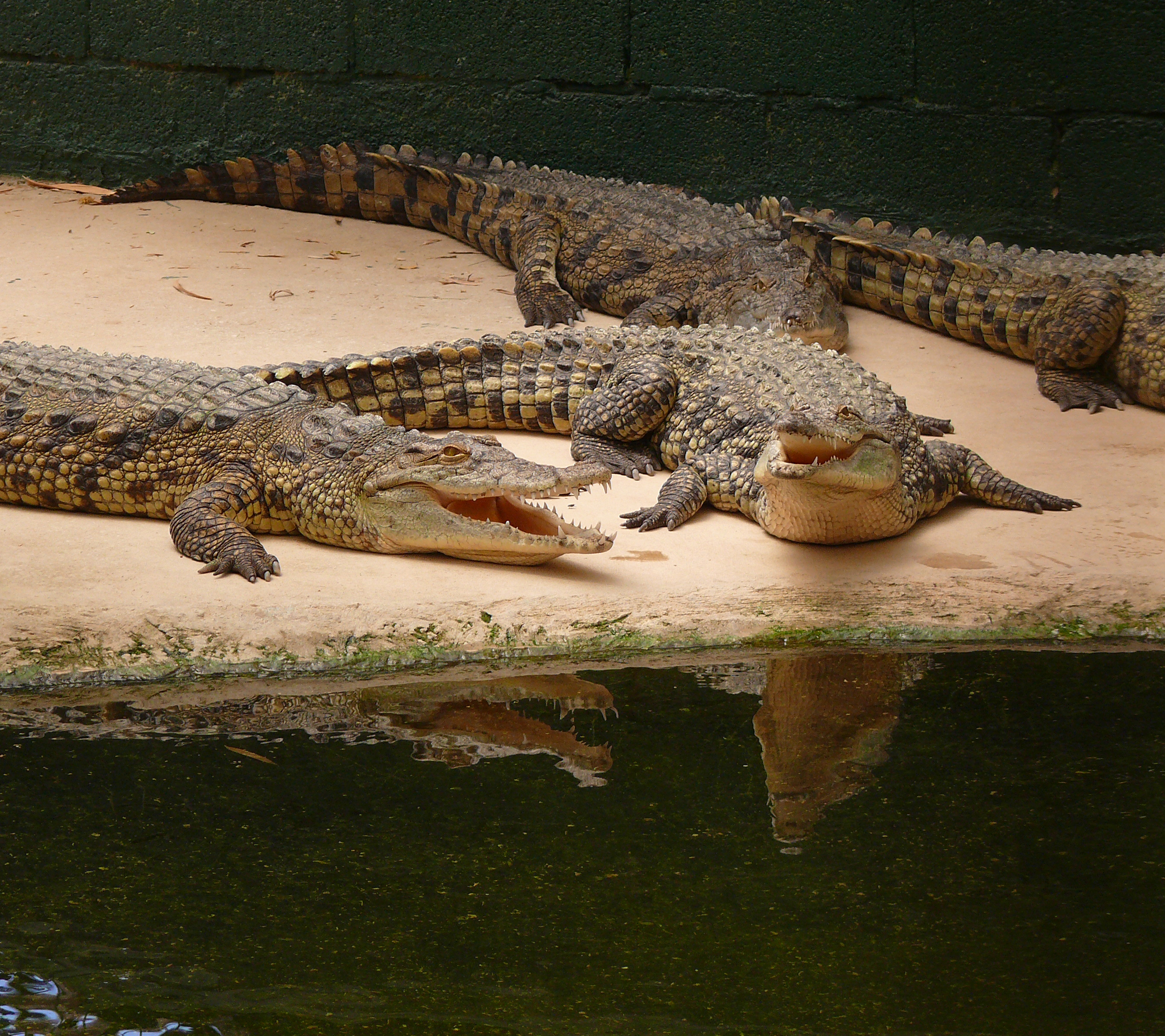 Nile Crocodiles ( Crocodylus niloticus תנין היאור ) in Hamat Gader, Israel